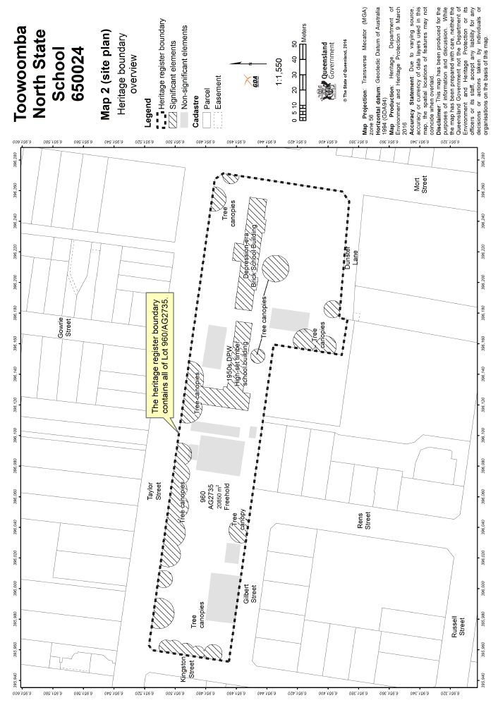 Boundary Map 2 (2016)